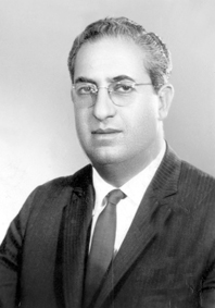 Houshang Seyhoun